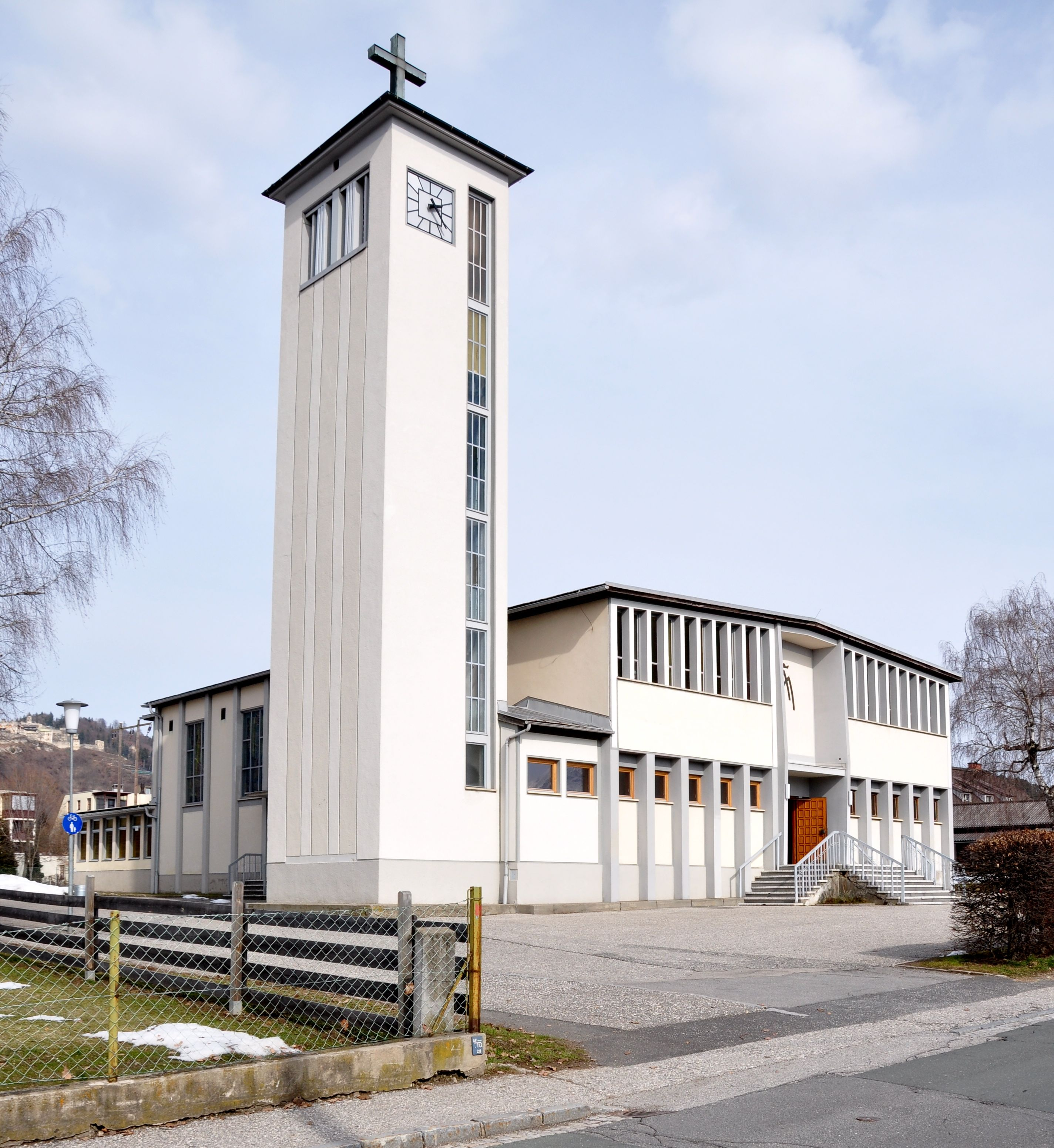 Parish church of the Immaculate Heart of Mary on the Franz-von-Assisi-Strasse #11 in Landskron, stautary city of Villach, Carinthia, Austria, EU